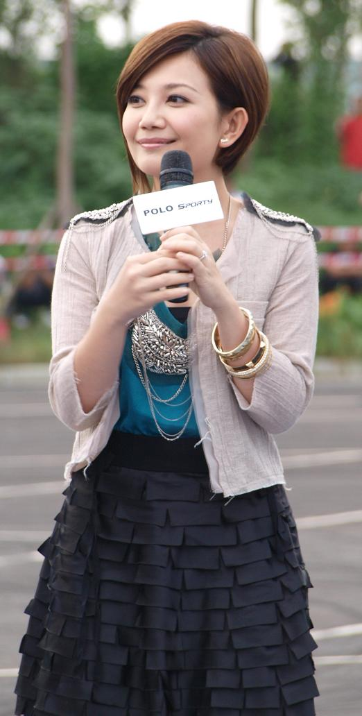 Fish Leong at Chengdu of Sichuan province China